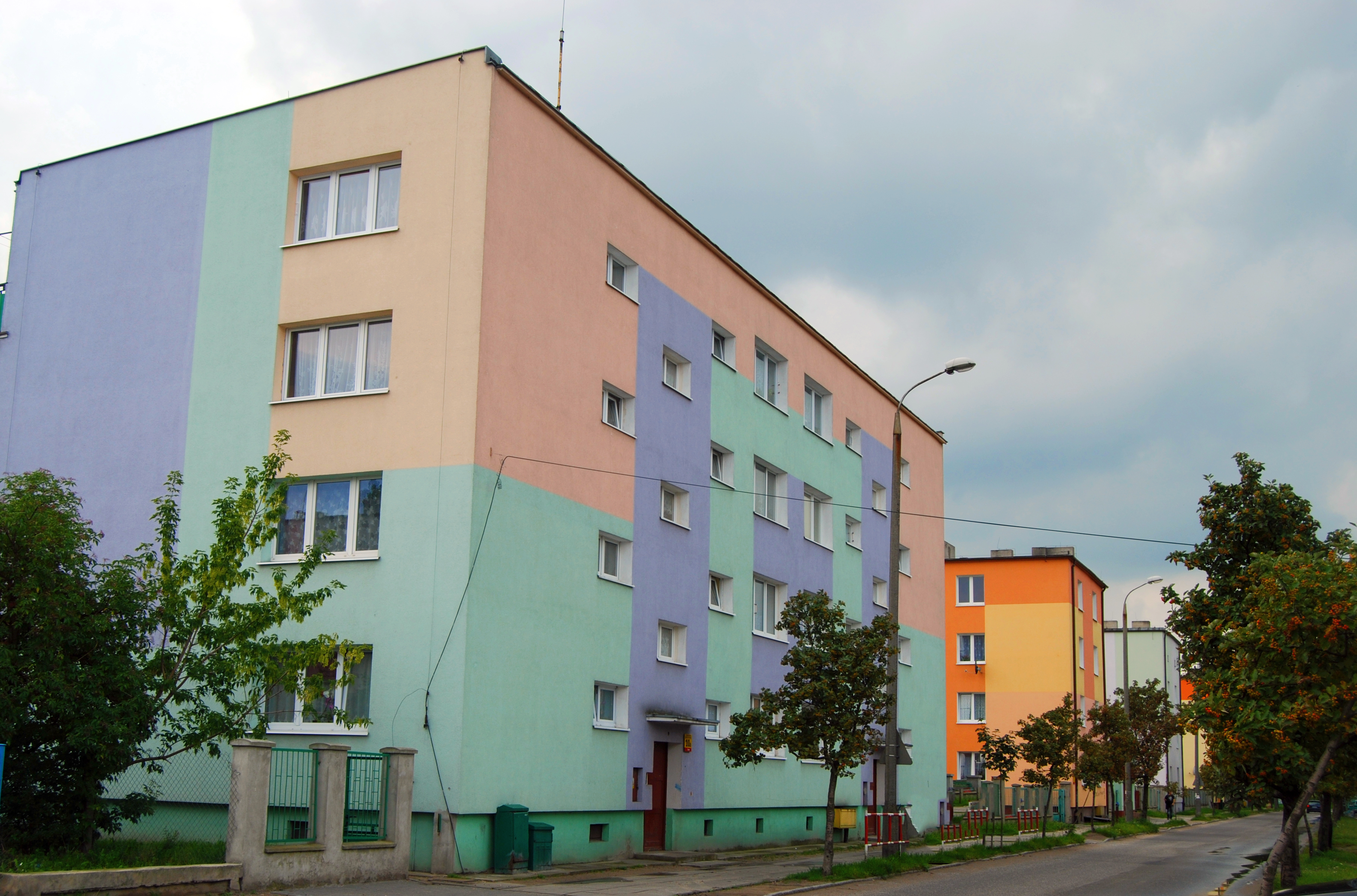 Oś.Grunwaldzkie